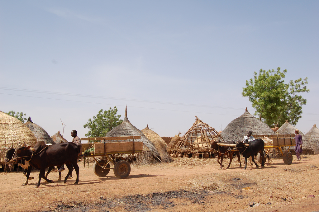 Transport in Niger According to original description, taken near Diffa in eastern Niger.